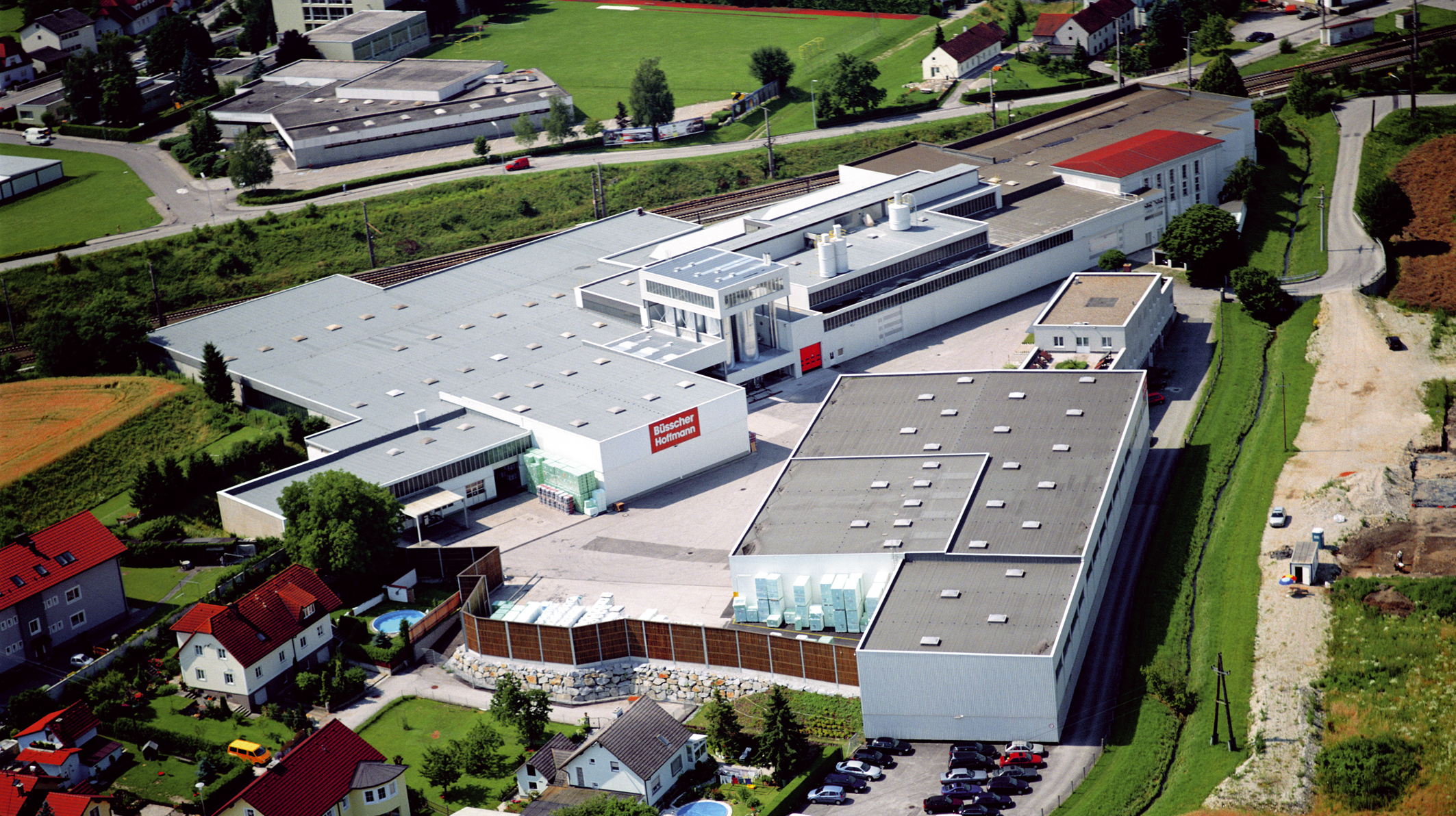 Werksstandort Enns Büsscher & Hoffmann GmbH (Stand 2005)